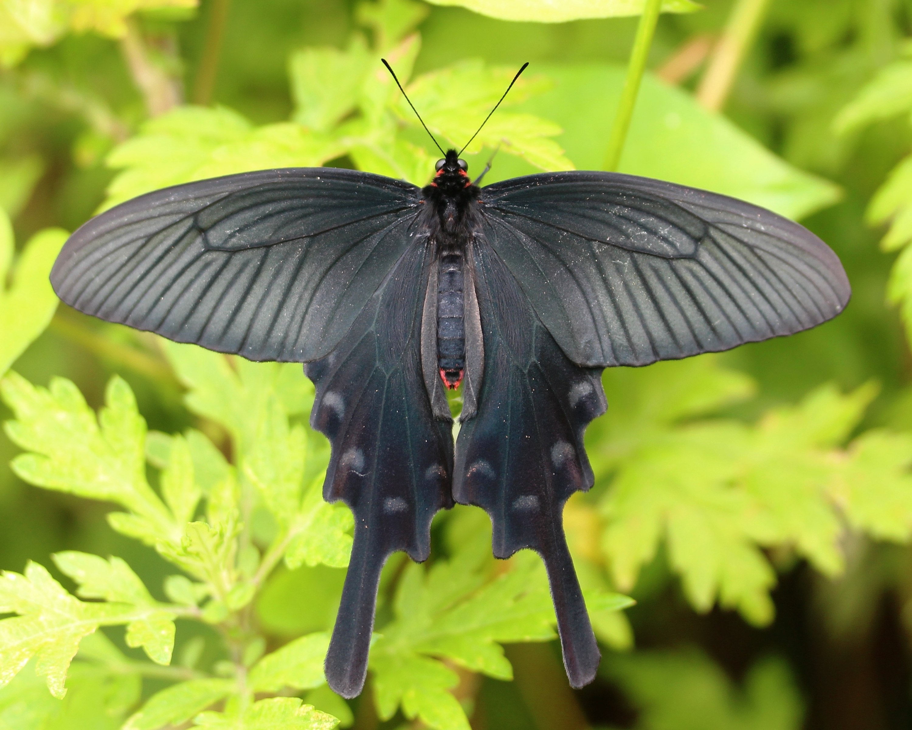 Atrophaneura alcinous alcinous, in Japan.